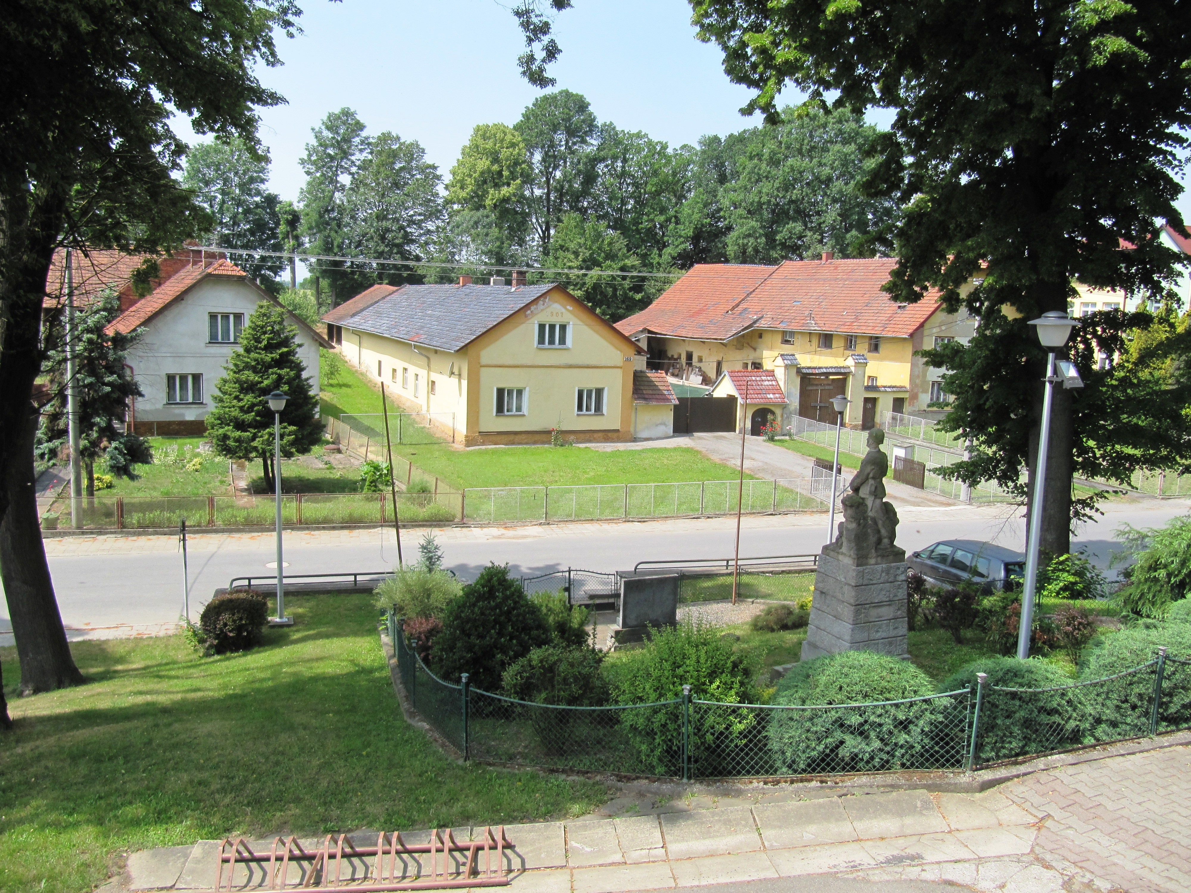 Pustějov, Nový Jičín District, Czech Republic.